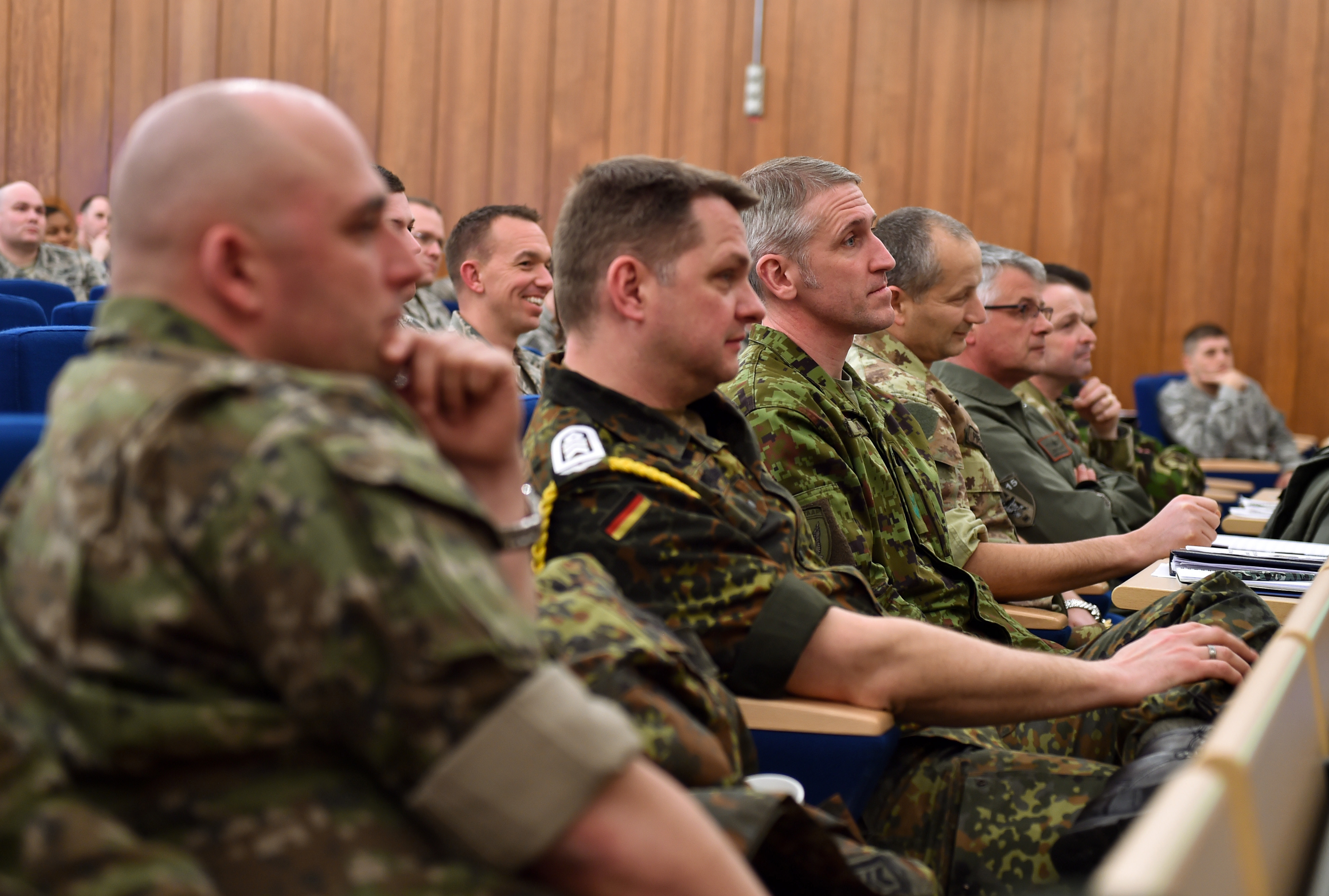 A group of enlisted leaders from six different nations’ air forces throughout Europe attend the Kaiserslautern Military Community First Sergeant Council's First Sergeant Symposium at Einsiedlerhof, Germany, Feb. 26, 2015. The group of enlisted leaders including the chief master sergeant of the Romanian and Estonian air forces and other leaders from the German, Italian, Slovenian and the United Kingdom’s air forces visited Ramstein before attending the First Sergeant Symposium. More than 120 students attended the annual symposium. (U.S. Air Force photo/Staff Sgt. Sara Keller)